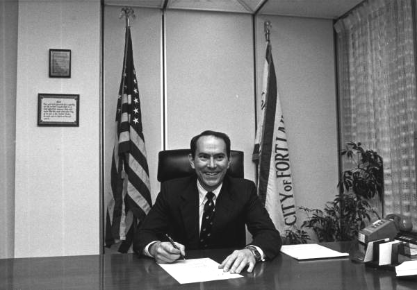 Portrait of Mayor Robert A. Dressler at his desk - Fort Lauderdale, Florida